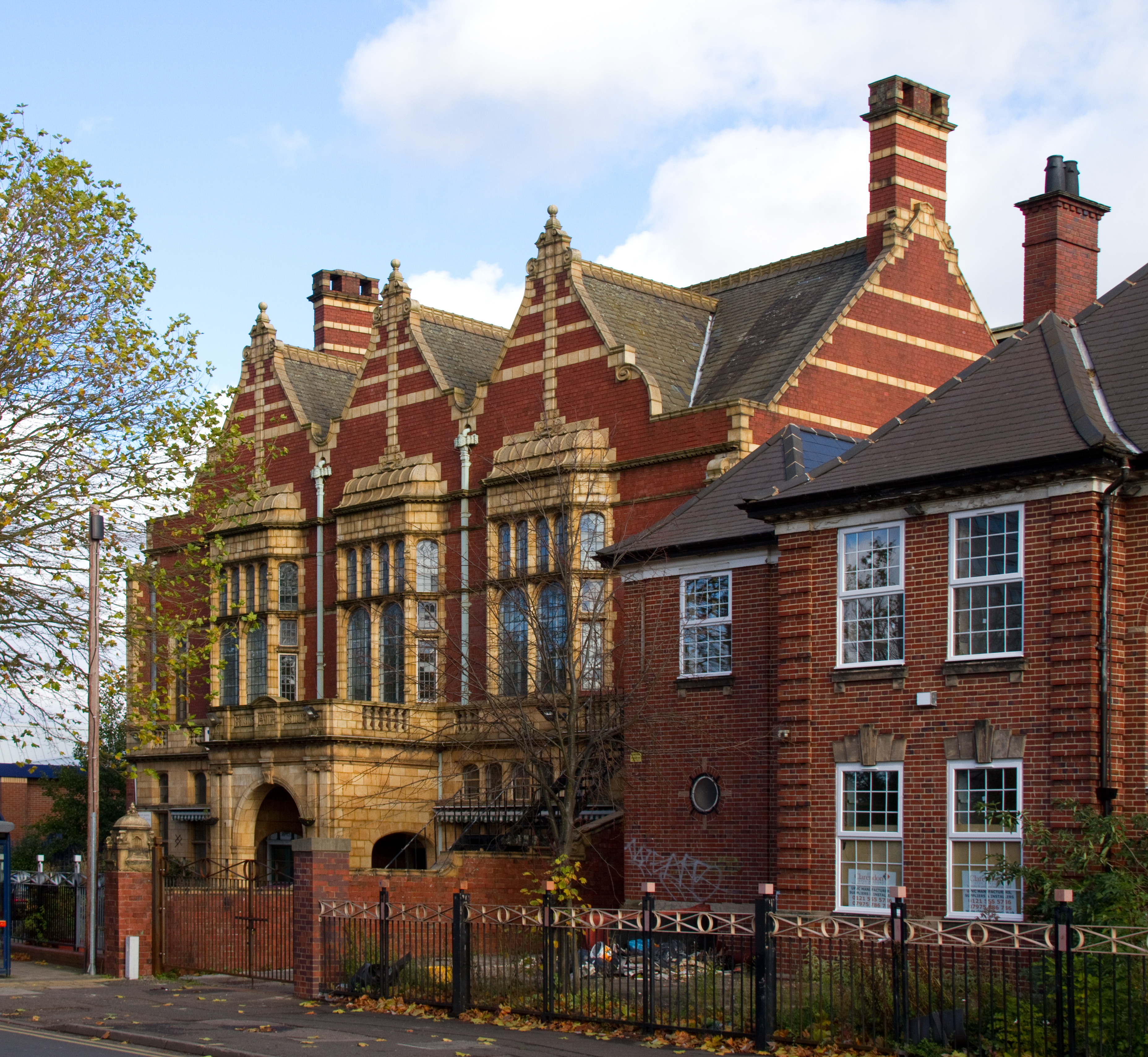 The Friends Institute on Moseley Road, Highgate, Birmingham